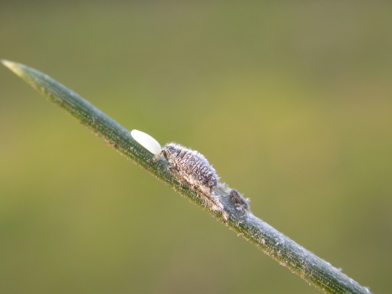 Several ladybirds species are specialised on pine trees and eat mainly this aphid species. Louvain-La-Neuve The aphid is probably a Schizolachnus sp. or an Eulachnus sp.